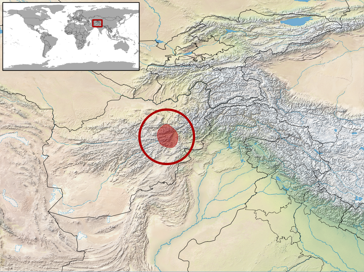 geographic distribution of Asiocolotes levitoni (Native: Afghanistan)